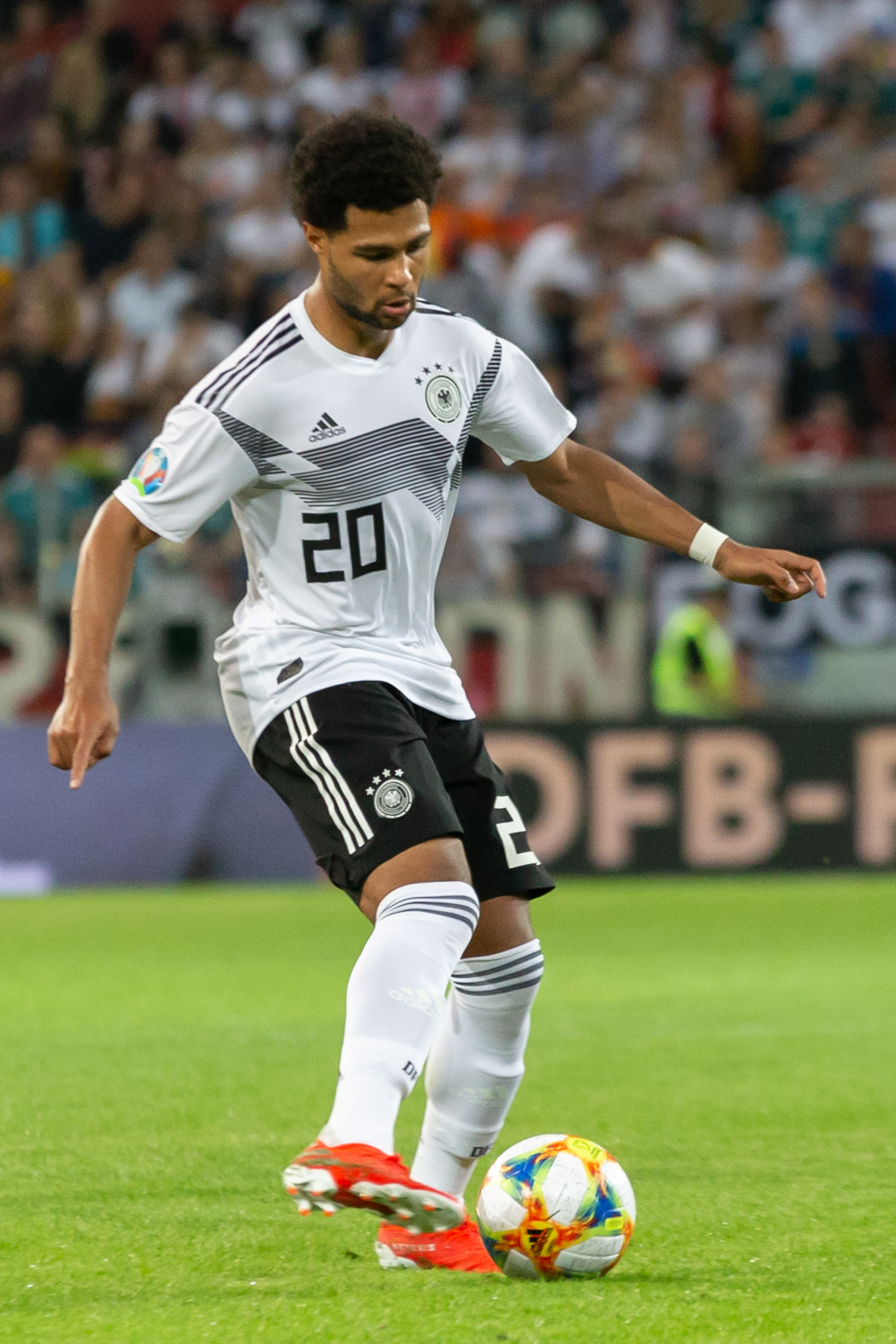 UEFA Euro 2020 qualifier Germany-Estonia